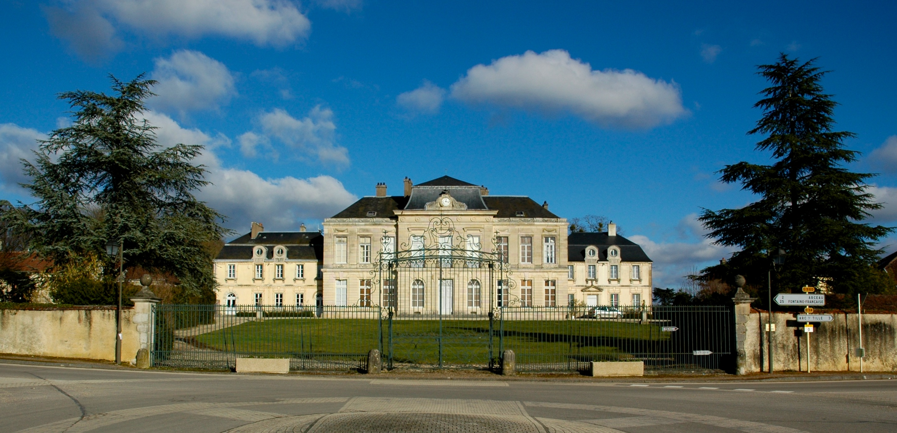 Arcelot Castle Arceau, Burgundy, France